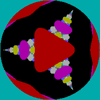 Complex recursive fractal, power -2